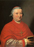 Angelo Maria Durini